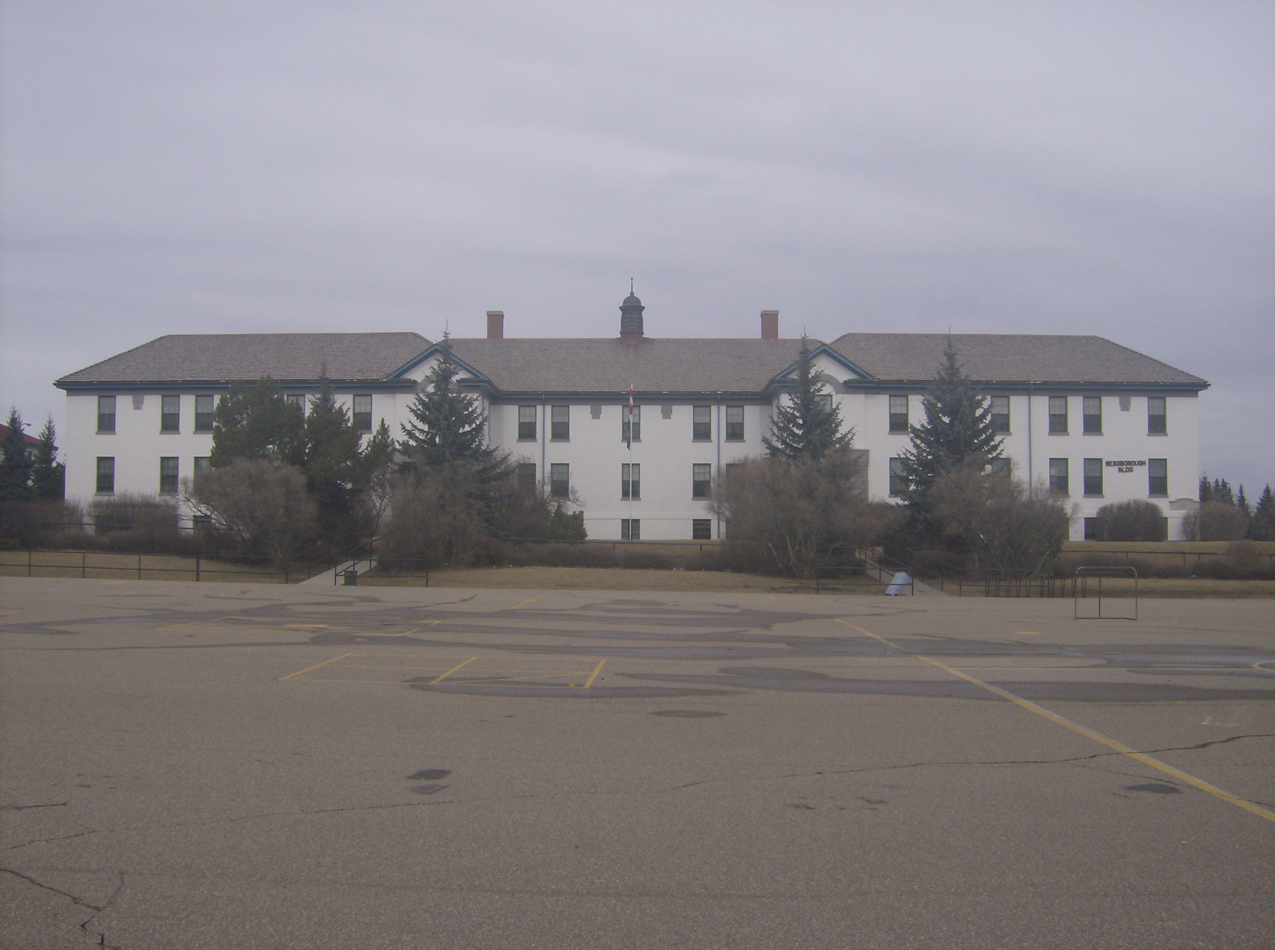 Clear Water Academy is a public charter school in Calgary, Alberta, Canada. The school is on Dieppe Avenue at Breskens Drive SW. This picture shows the South side of the building. Dieppe Avenue (not visible) runs along the North side of the building.